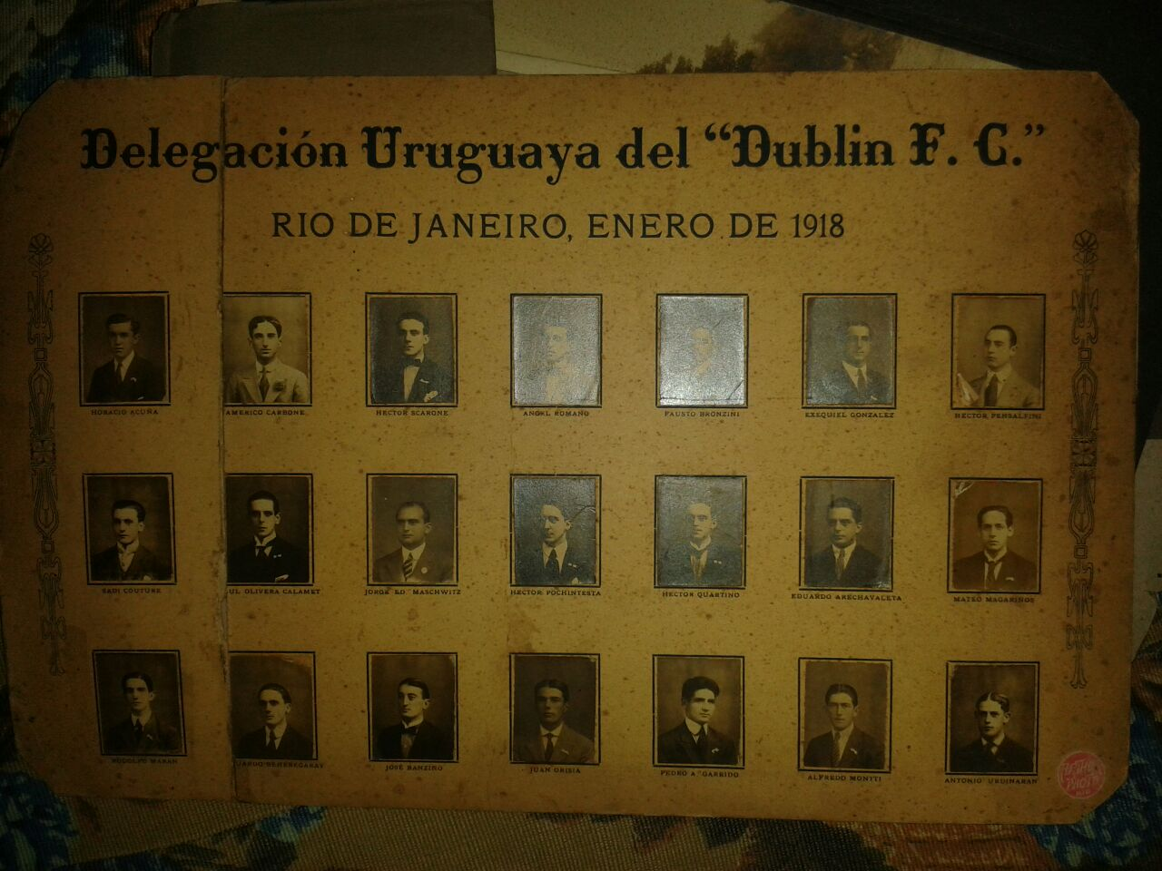 DUBLIN FOOTBALL CLUB TEAM, INCLUDED SEVERAL WOLD CHAMPIONS